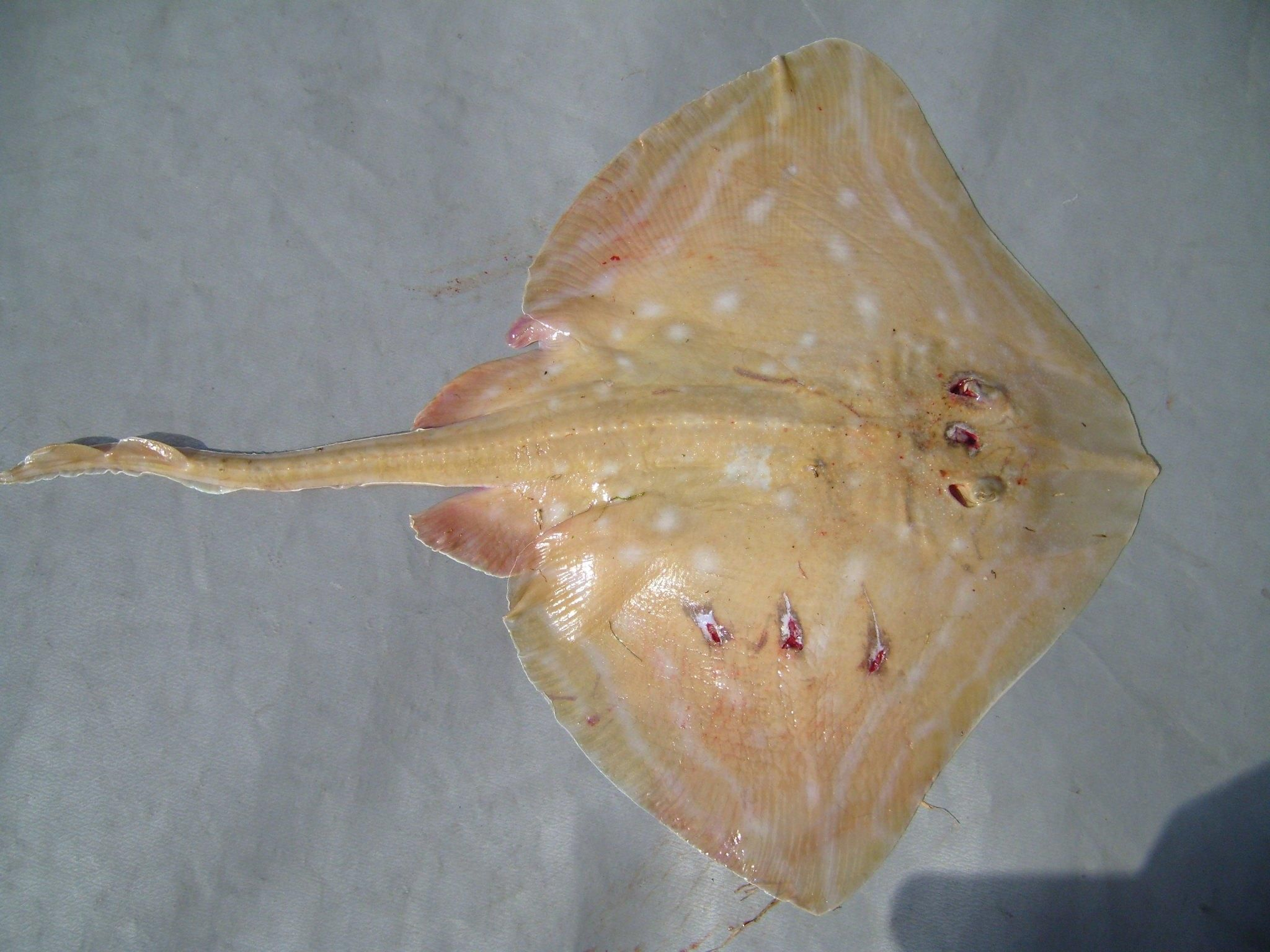 Image title: Skate ray fish Image from Public domain images website